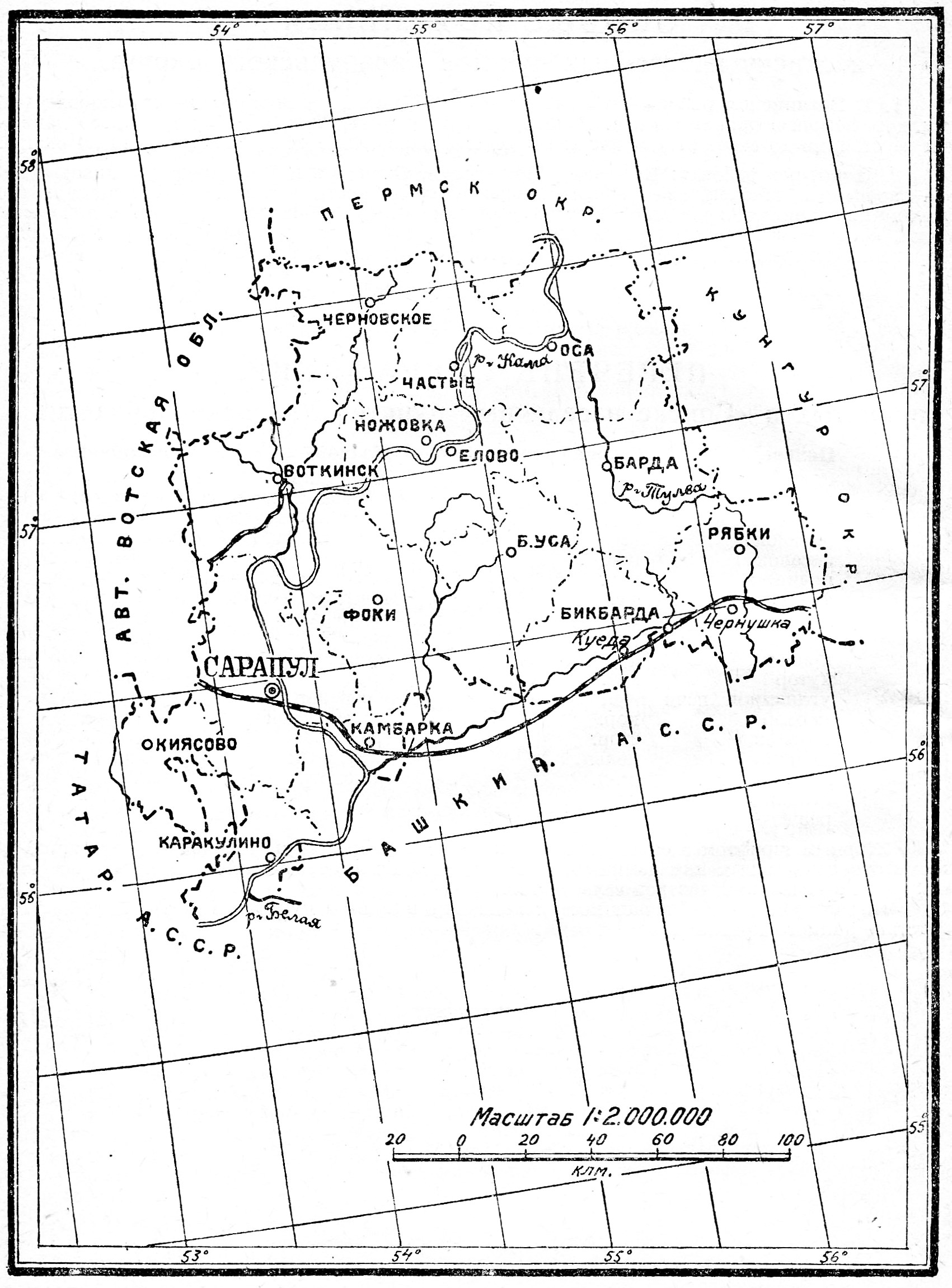 Map of Sarapulskiy Okrug (District of Sarapul). 1928.